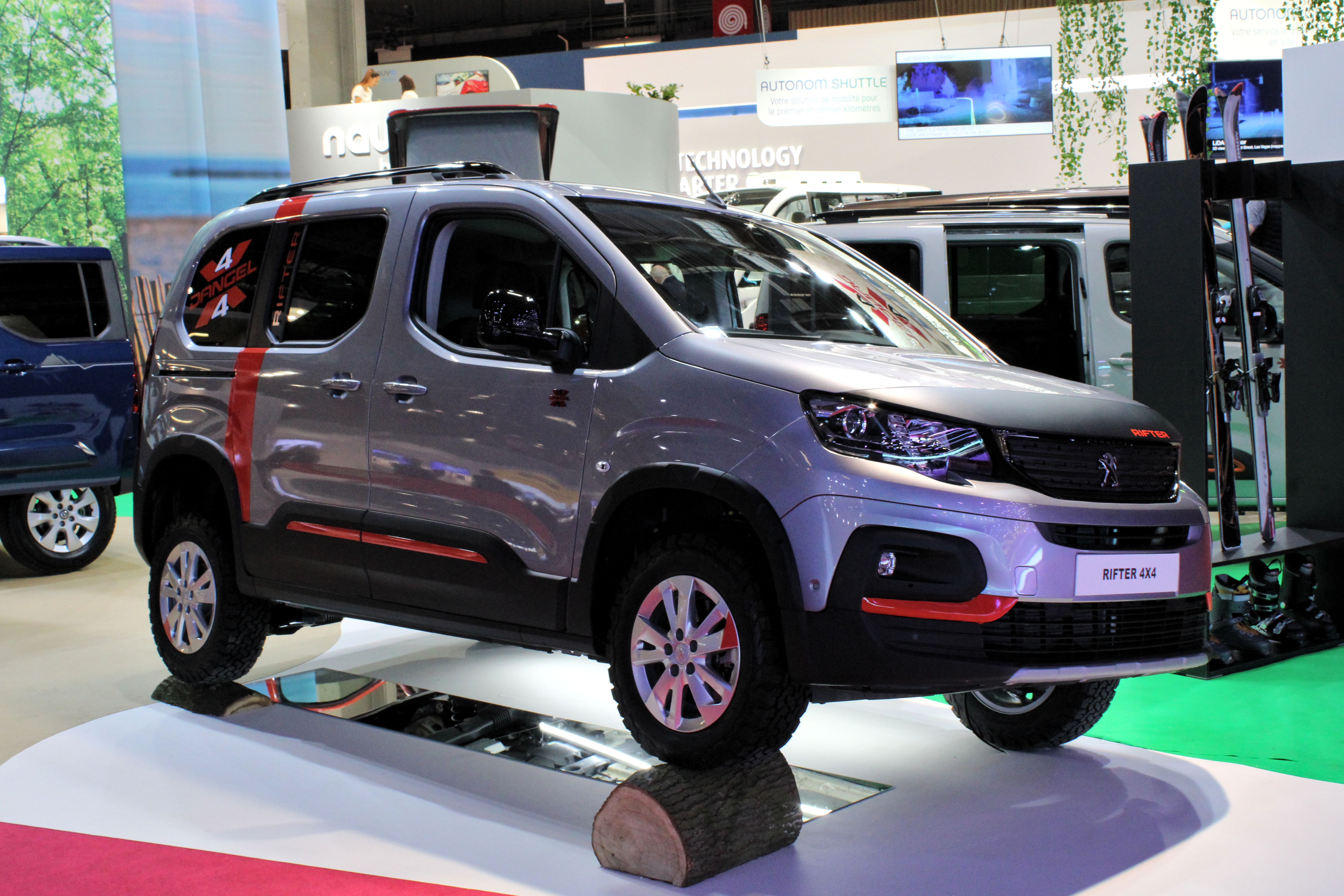 Peugeot Rifter 4x4 at Paris Motor Show 2018